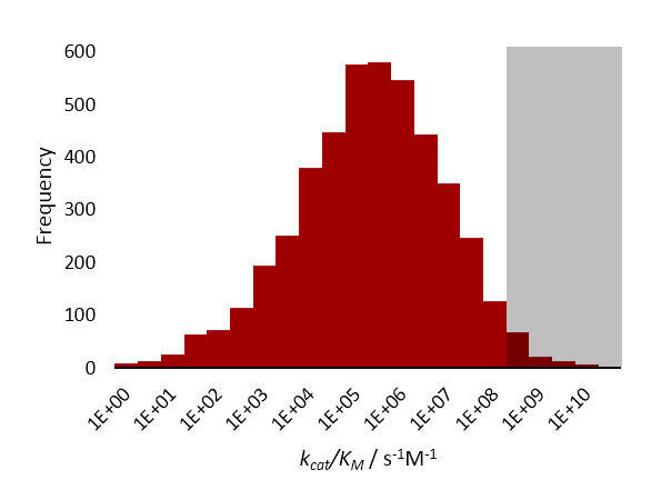 The distribution of enzyme activities. The fastest enzymes in the dark box on the right are constrained by the diffusion limit and so display kinetic perfection. (Data adapted from from The Moderately Efficient Enzyme: Evolutionary and Physicochemical Trends Shaping Enzyme Parameters)